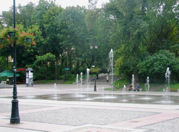 Białystok. Fountains in the Park Poniatowski